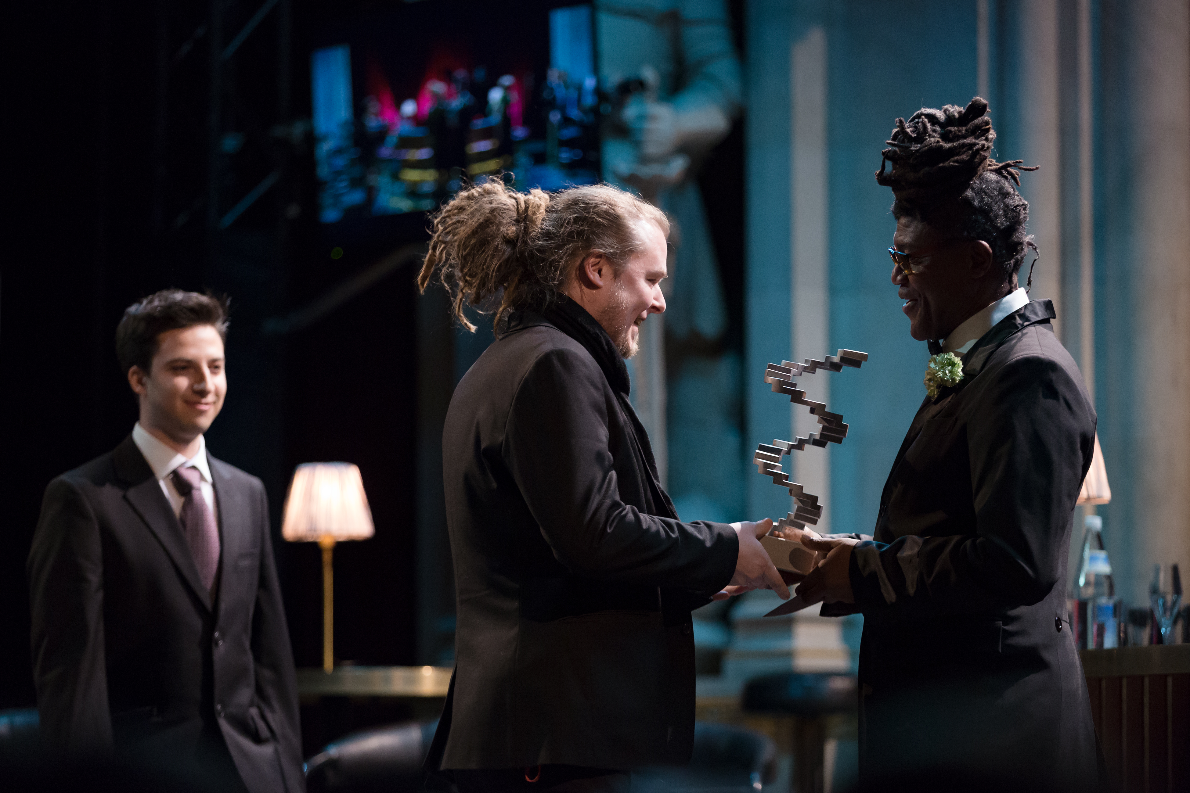 Percussionist Moses Afanyi presenting the trophy to Thomas Pötz and Sebastian Watzinger, winners of the category Best Sound Design at the Austrian Film Awards 2017 (Rathaus, Vienna,Austria).